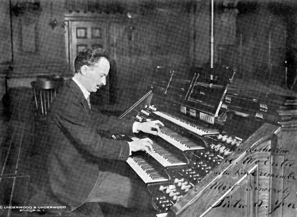 Underwood & Underwood Studios (N.Y.): 1919 photo of Pietro Yon at console of Casavant Frères organ, Op. 184 (1903).